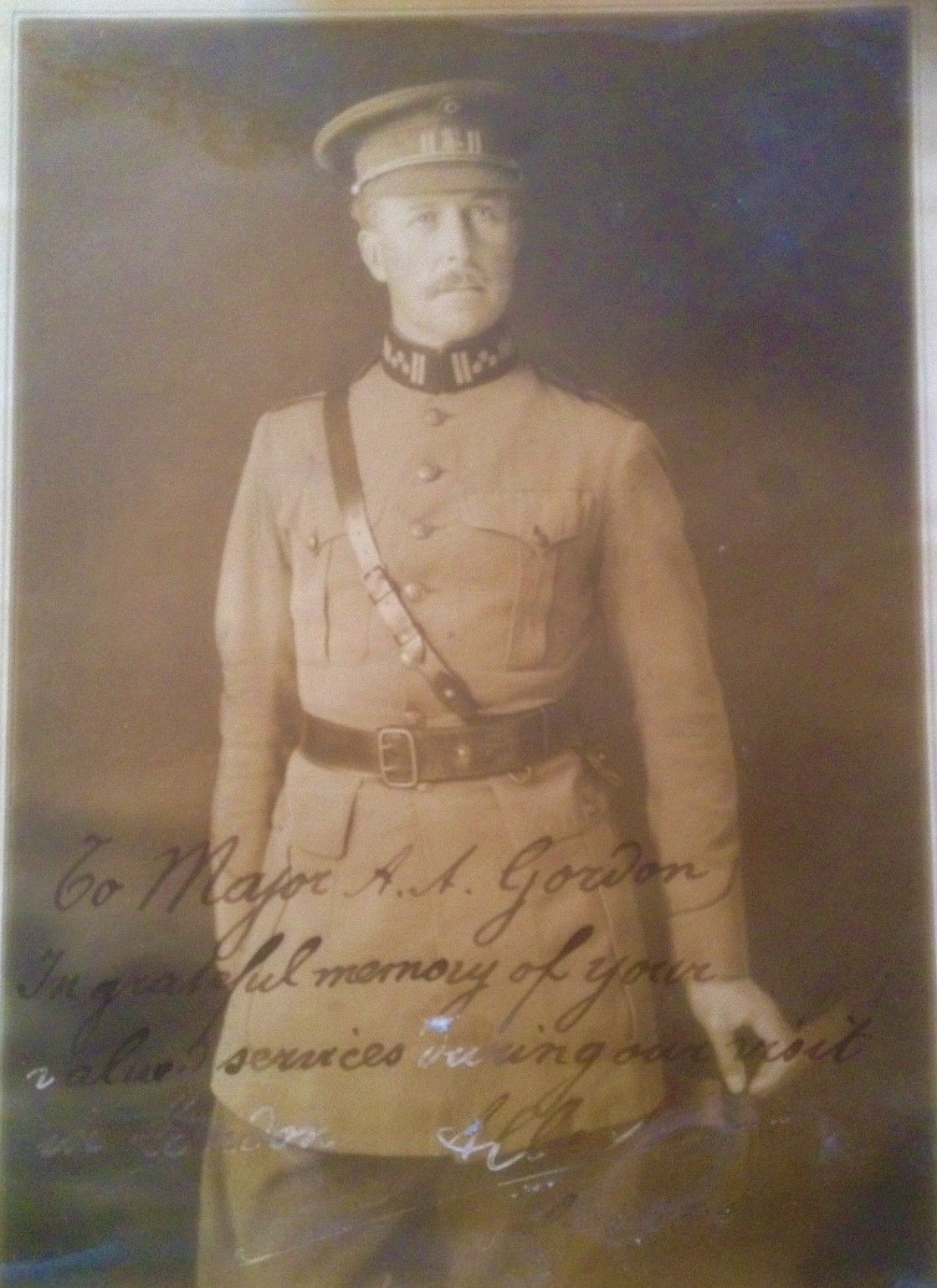 signed photograph by King Albert